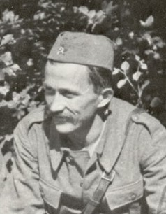 The commander of the First Proletarian Division Koca Popovic and commander of the First Proletarian Brigade Danilo Lekic in eastern Bosnia, after the breach of Zelengore, June 1943.